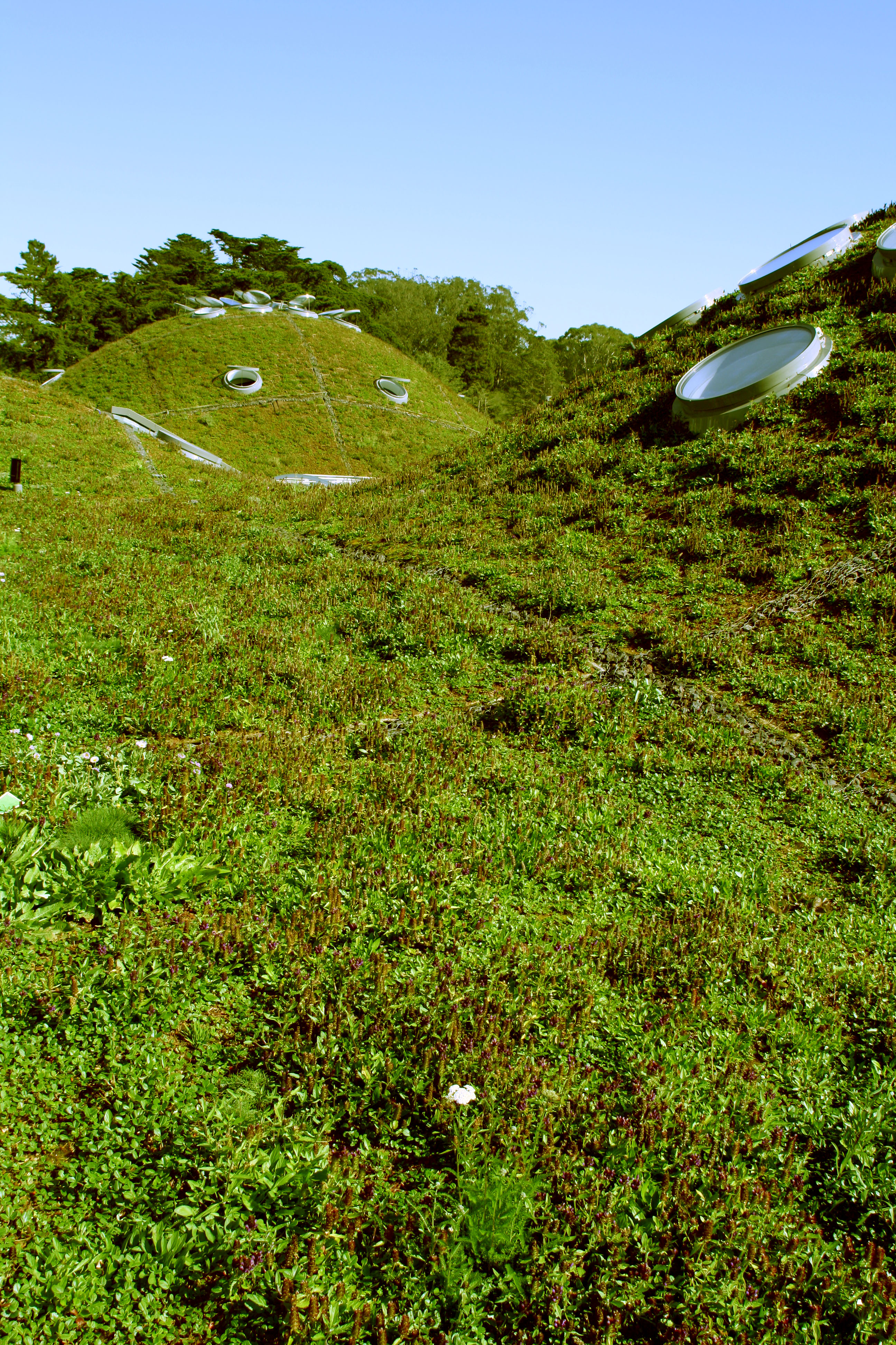 "Living roof" of the California Academy of Science, Golden Gate Park in San Francisco.